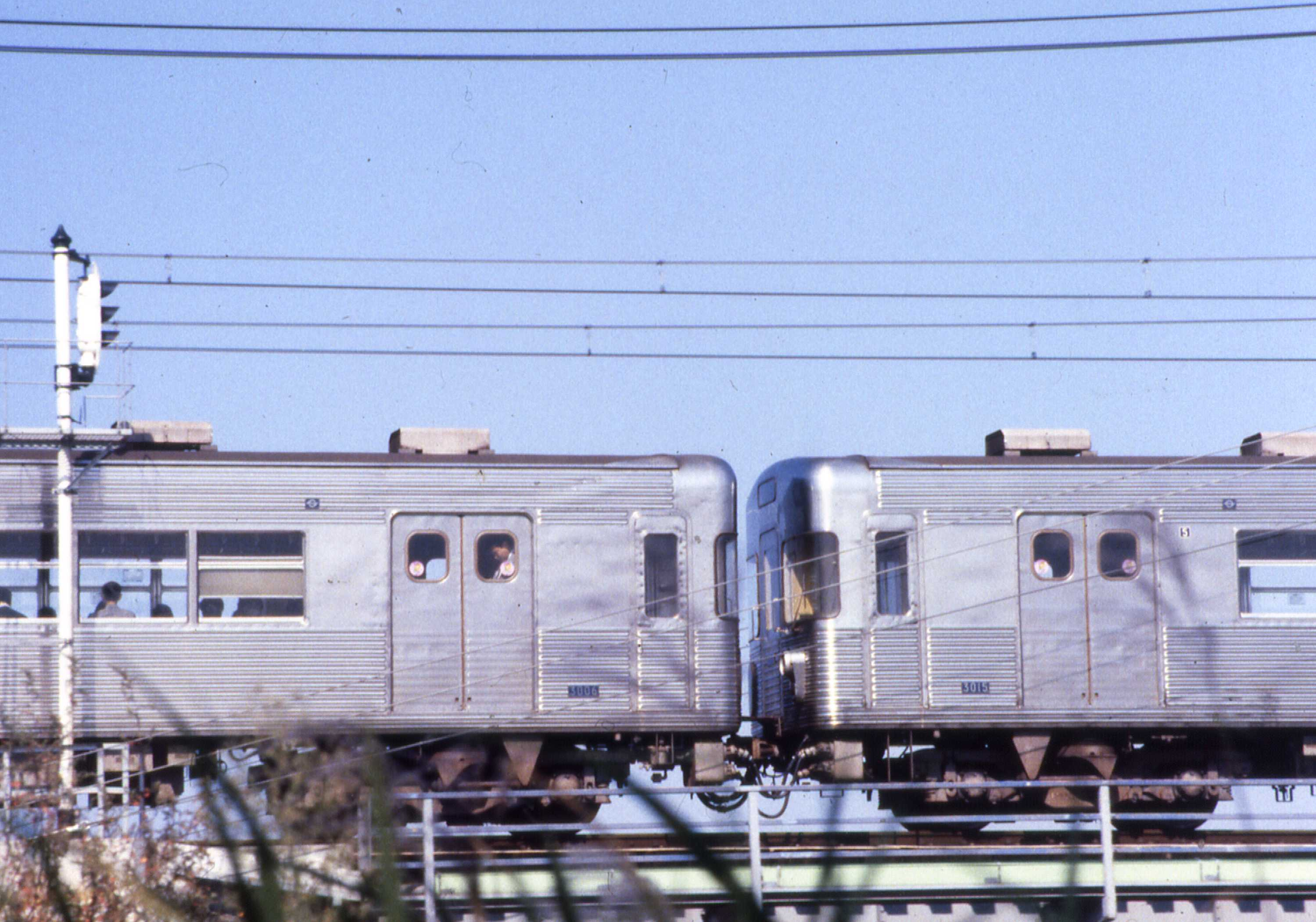 Eidan 3000 driving cars inside a unit